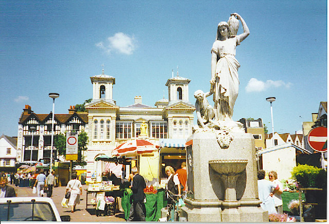 Kingston-upon-Thames, Market Place. With mock Tudor shop, Market Hall and Fountain.